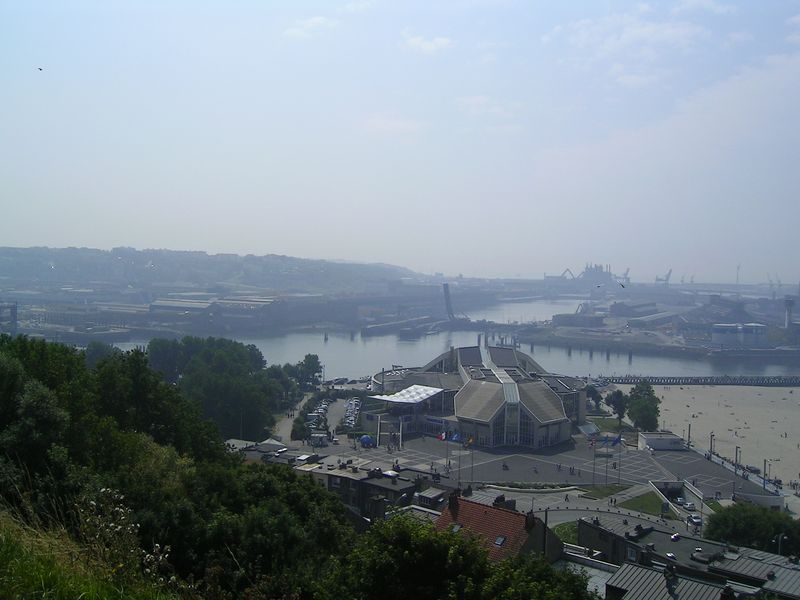 Nausicca Photo personnelle (own work) de Marianna